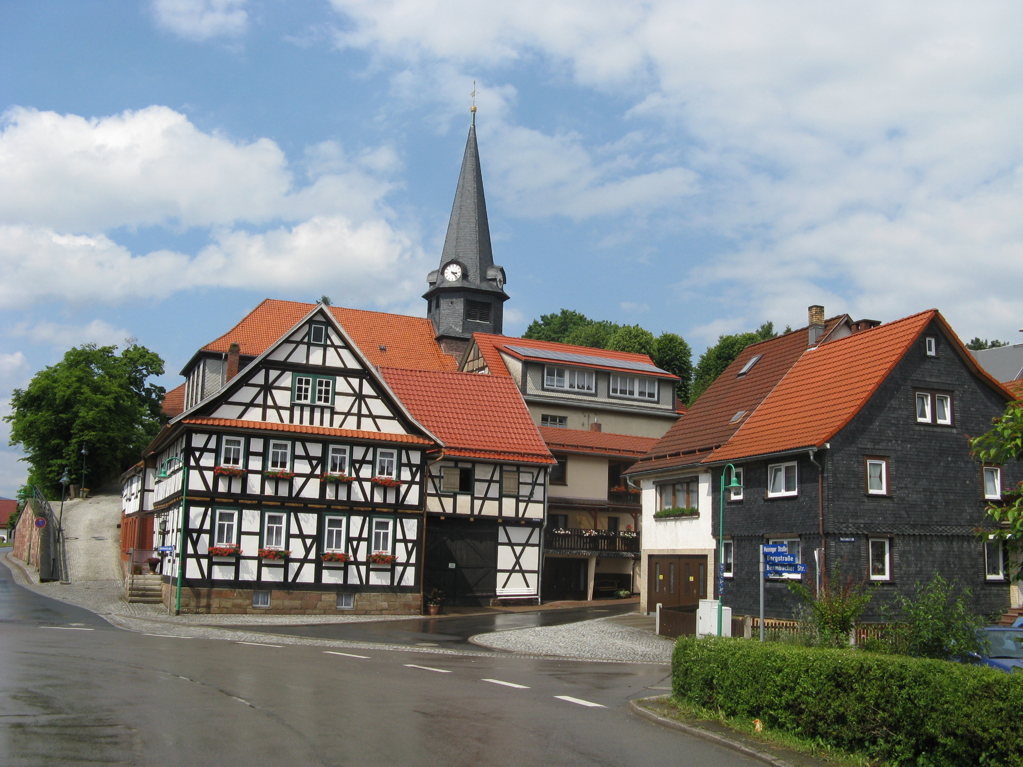 Viernau (Thüringen/Germany), village centre